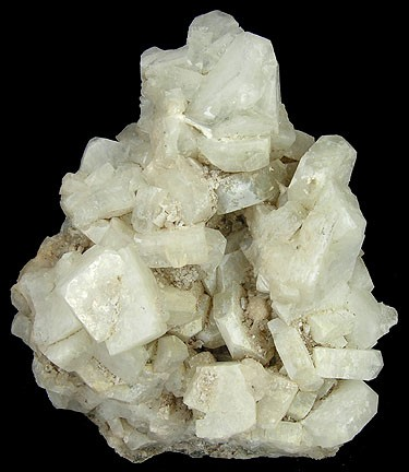 Apophyllite-(KF) Locality: Upper New Street Quarry (Burger's Quarry), Paterson, Passaic County, New Jersey, USA (Locality at ) Size: 8.2 x 6.2 x 3.7 cm. This specimen consists of dozens of tabular, white crystals of Apophyllite measuring up to 1.4 cm which are sitting on Basalt matrix. The quarry at Upper New Street is over 100 years old (it opened in 1893). During the mid 1980’s to early 1990’s, there was a lot of collecting that took place between the Upper New Street and Lower Street Quarries in an area that is affectionately referred to by some as "Middle New Street". Ex. Brian Kosnar Collection.